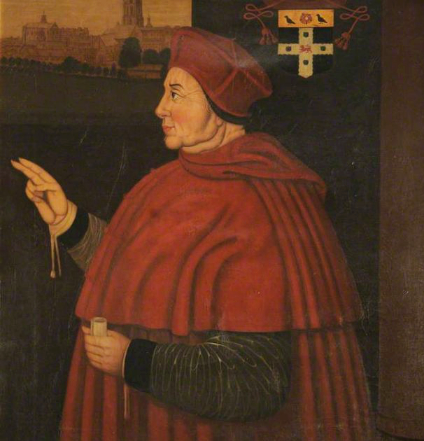 Sampson Strong's portrait of Cardinal Wolsey, hanging now in Christ Church, Oxford